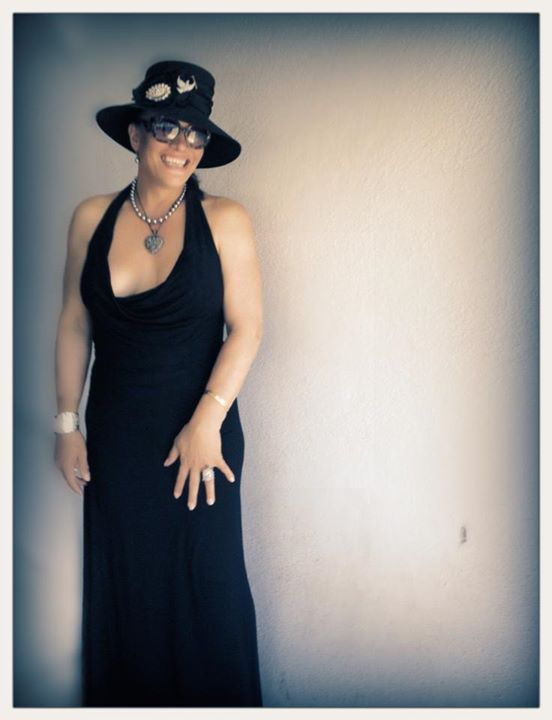 Melenie Mahinamalamalama Eleneke, Hawaiian spiritual healer and LGBTQQI activist.